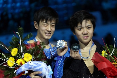 Shoma Uno and Sota Yamamoto at the 2014-2015 ISU Junior Grand Prix Final.